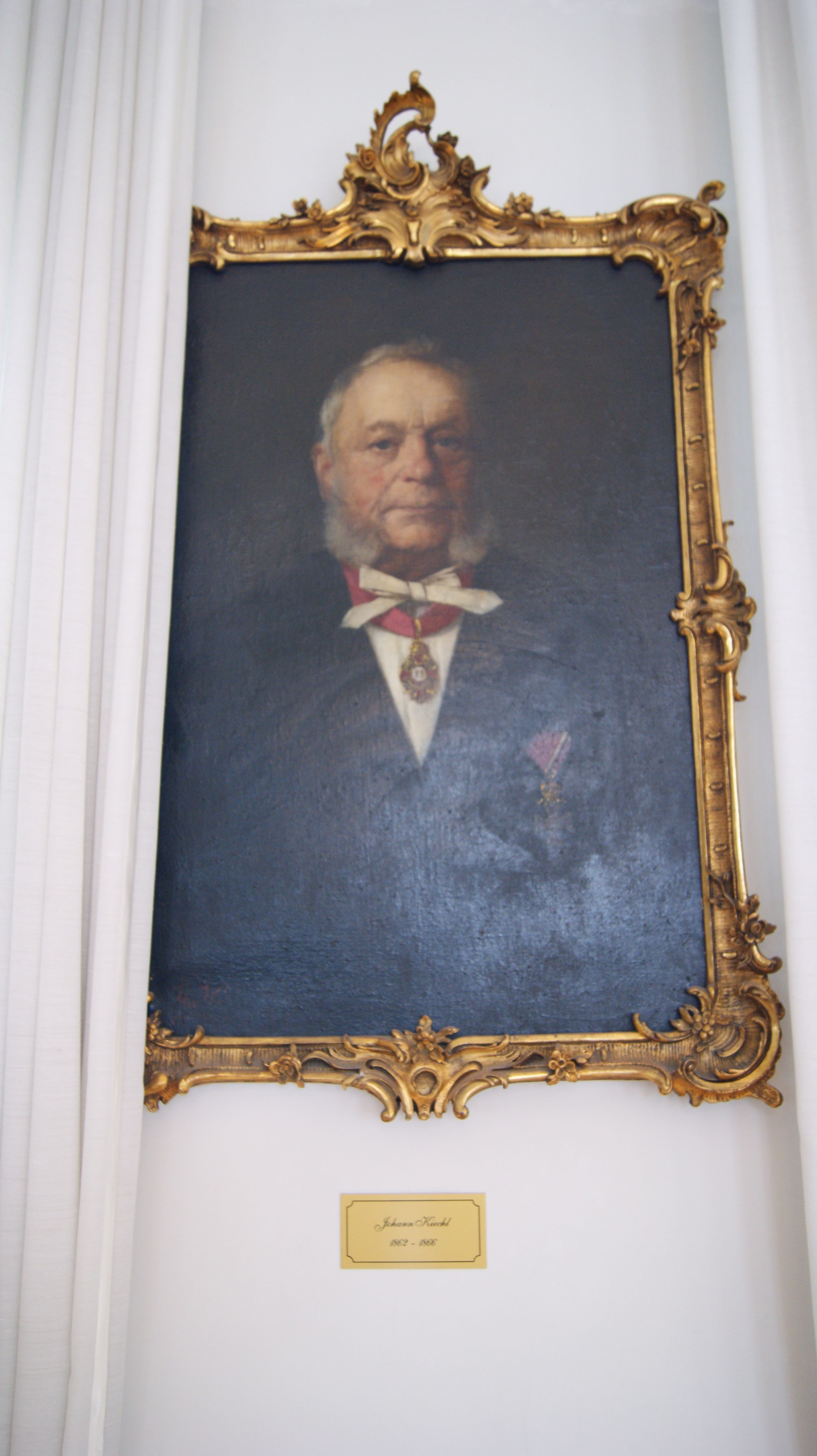 Johann Kiechl, head of the Provincial Government of Tyrol.